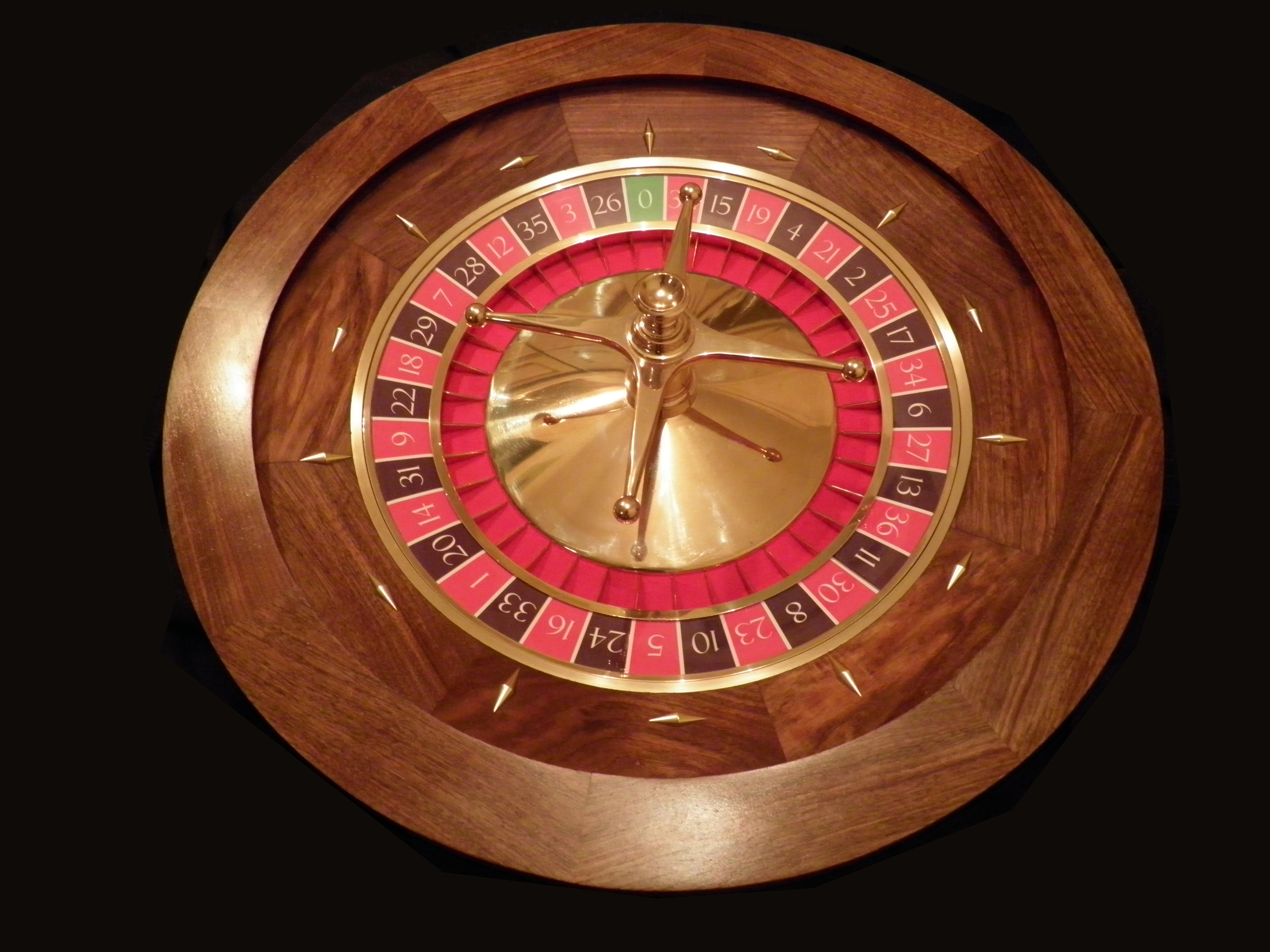 A roulette wheel.